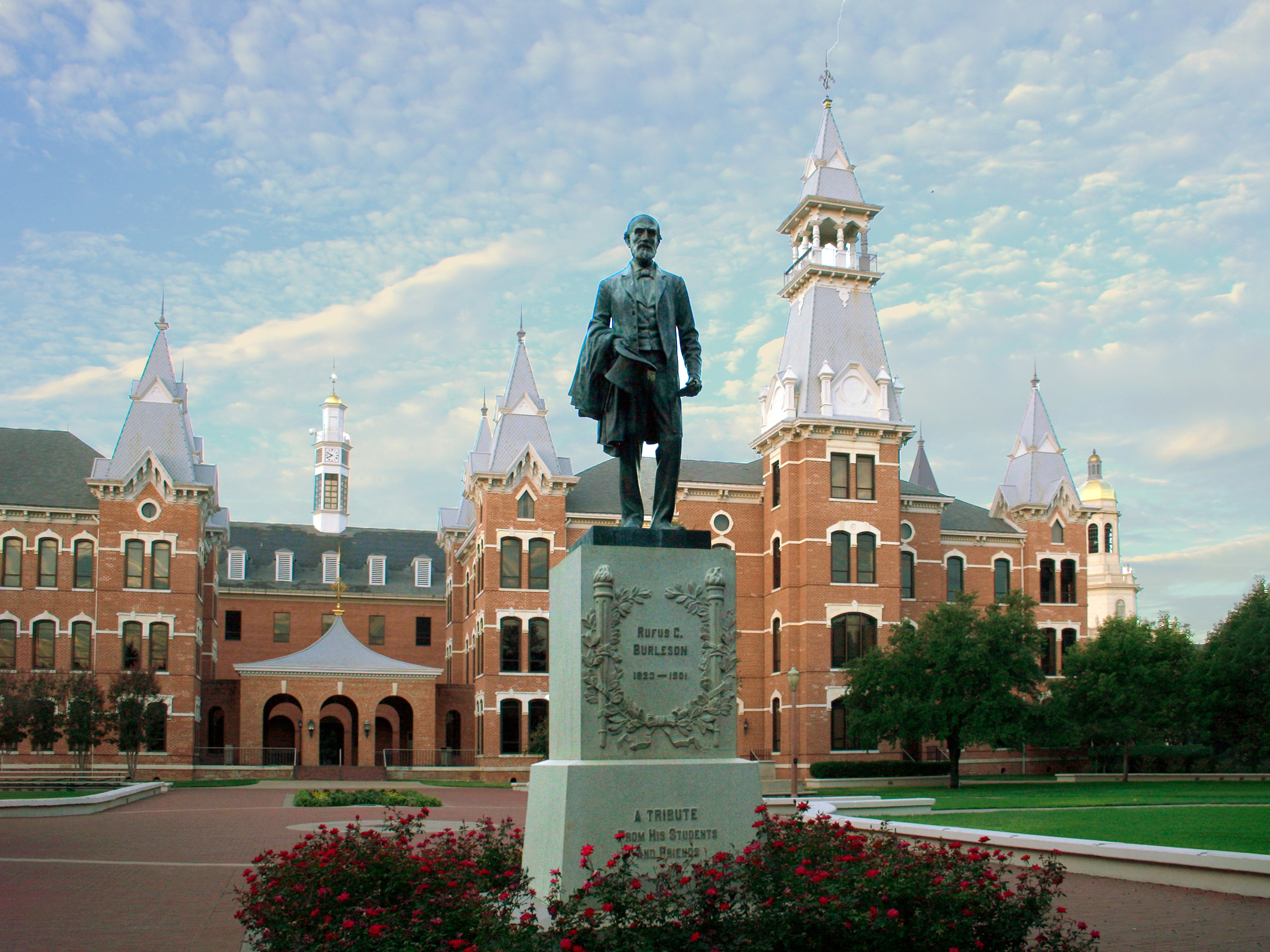 Statue of Rufus C. Burleson, second president of Baylor University. The most prominent building in the image located behind and to the right of the statue is Old Main which was designated a Recorded Texas Historic Landmark in 2009. To the left is part of Burleson Hall. Behind both buildings, seen as between them in the image, is the central portion of the Draper Academic Building. To the far right, positioned behind Old Main, is the tower above Pat Neff Hall.Statue inscription:Rufus C. Burleson1823-1901A Tribute From His Students And Friends